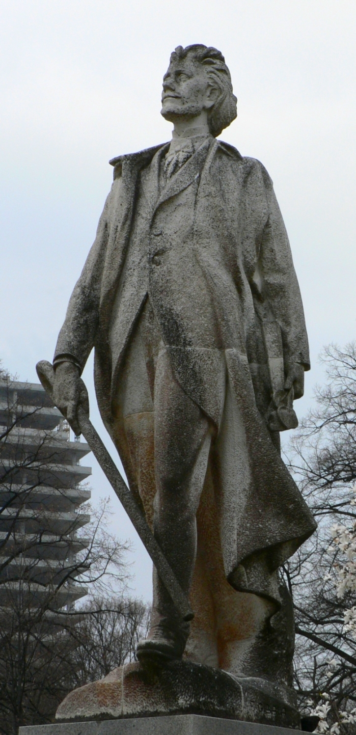 Statue of Janko Kráľ, Sad Janka Kráľa, Petržálka, Bratislava, Slovakia